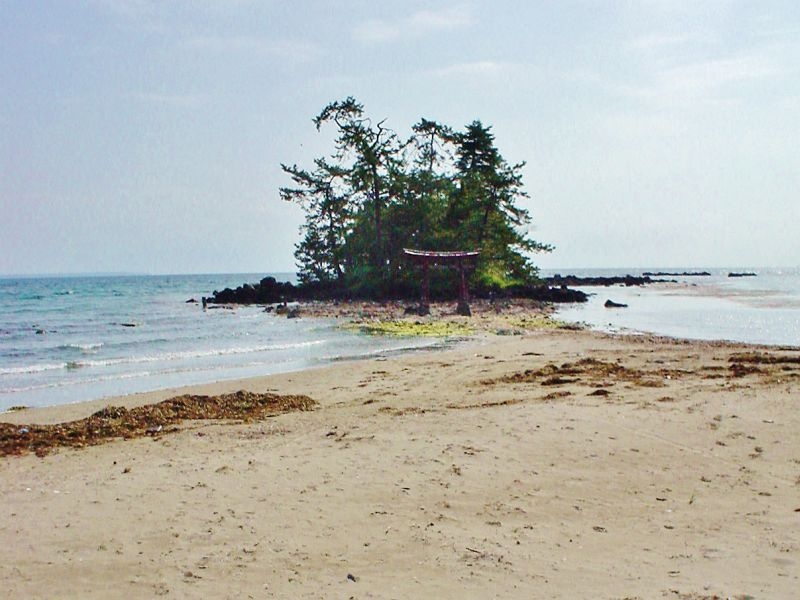 Koiji Coast Benten Island.